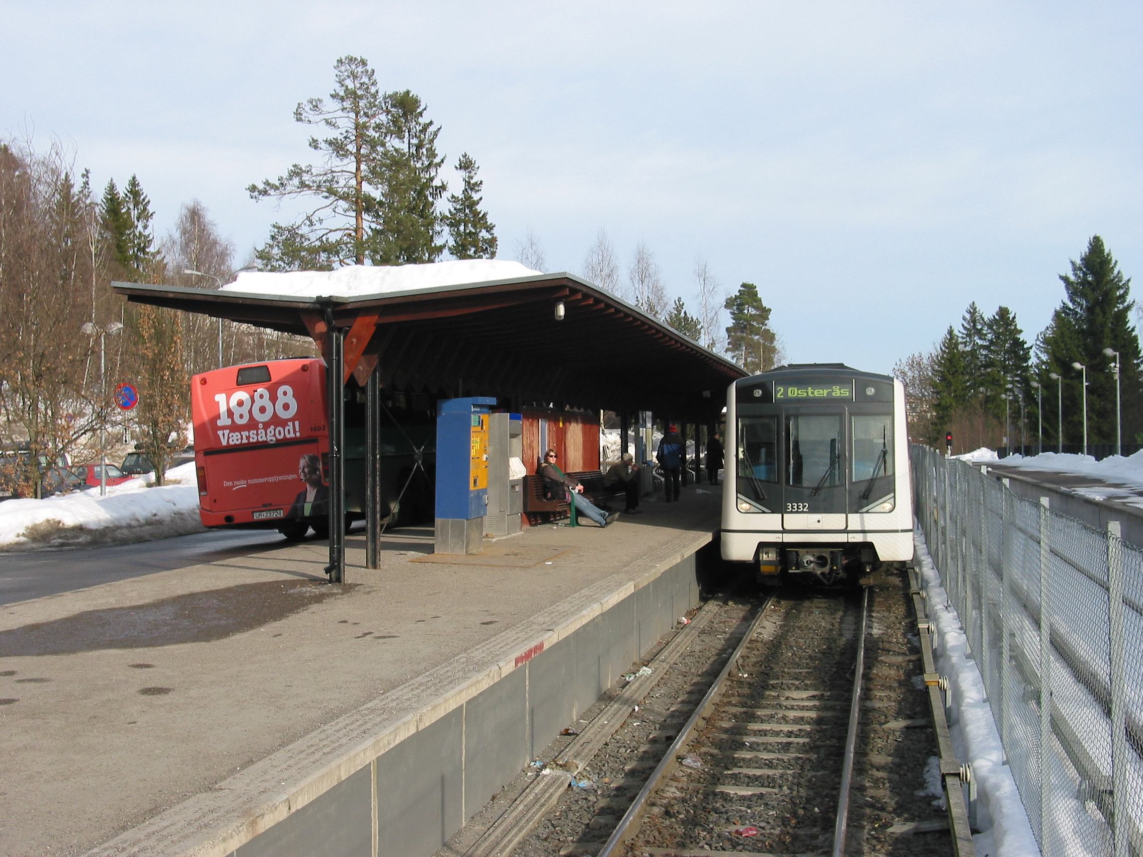 Østerås station, looking east.